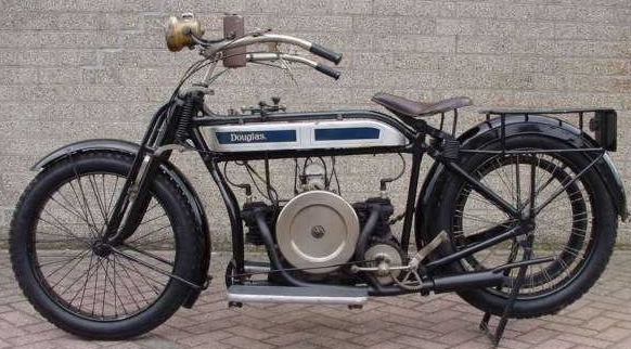 1916 Douglas 4 hp 596 cc side valve motorcycle